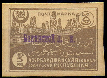 Stamp of the Azerbaijan SSR, with an overprint, 5 rub.